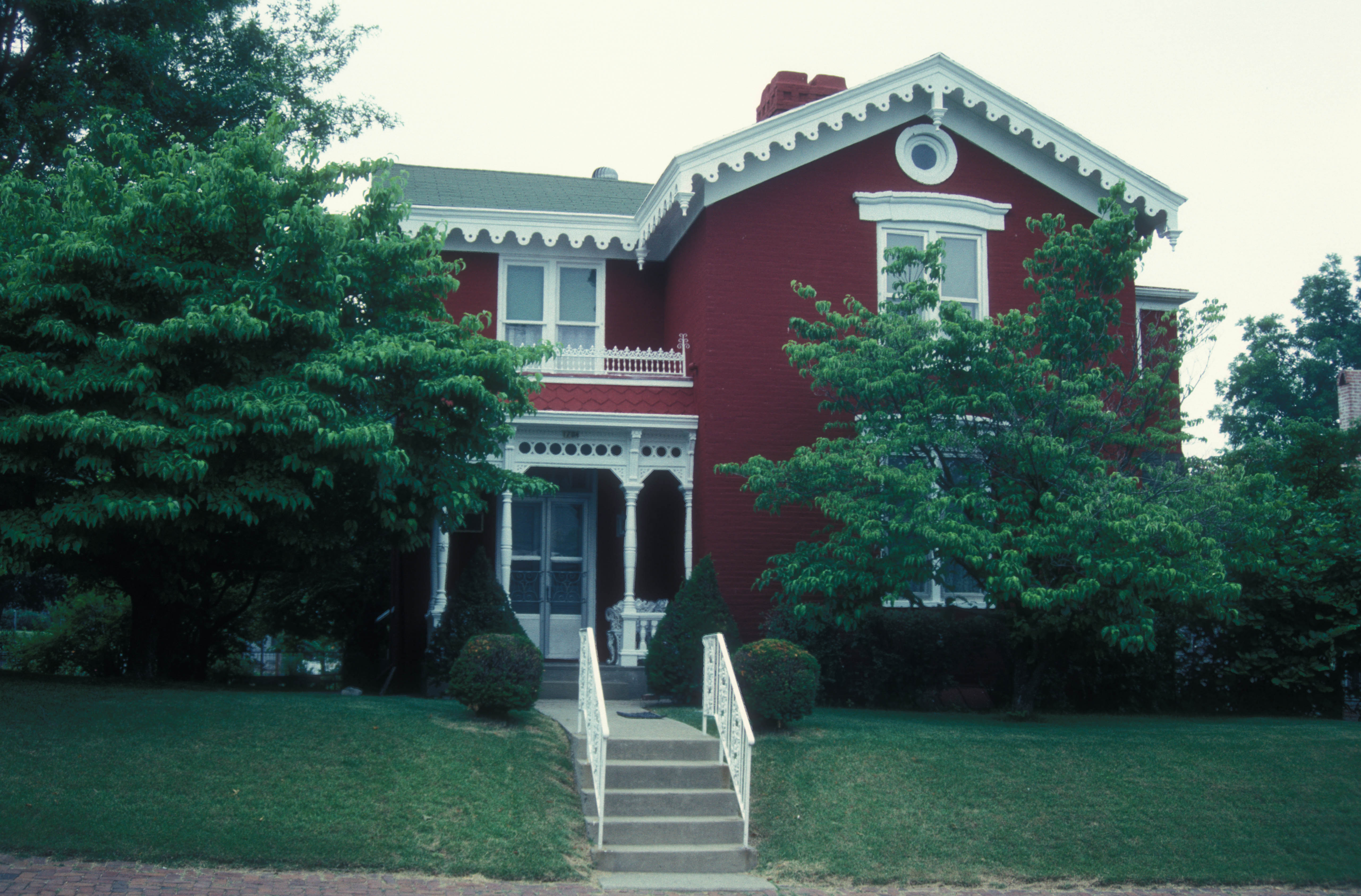 PROBABLY ASSOCIATED WITH THE WADDELL OF PONY EXPRESS FAME SINCE THEY SPENT SOME TIME IN THIS TOWN